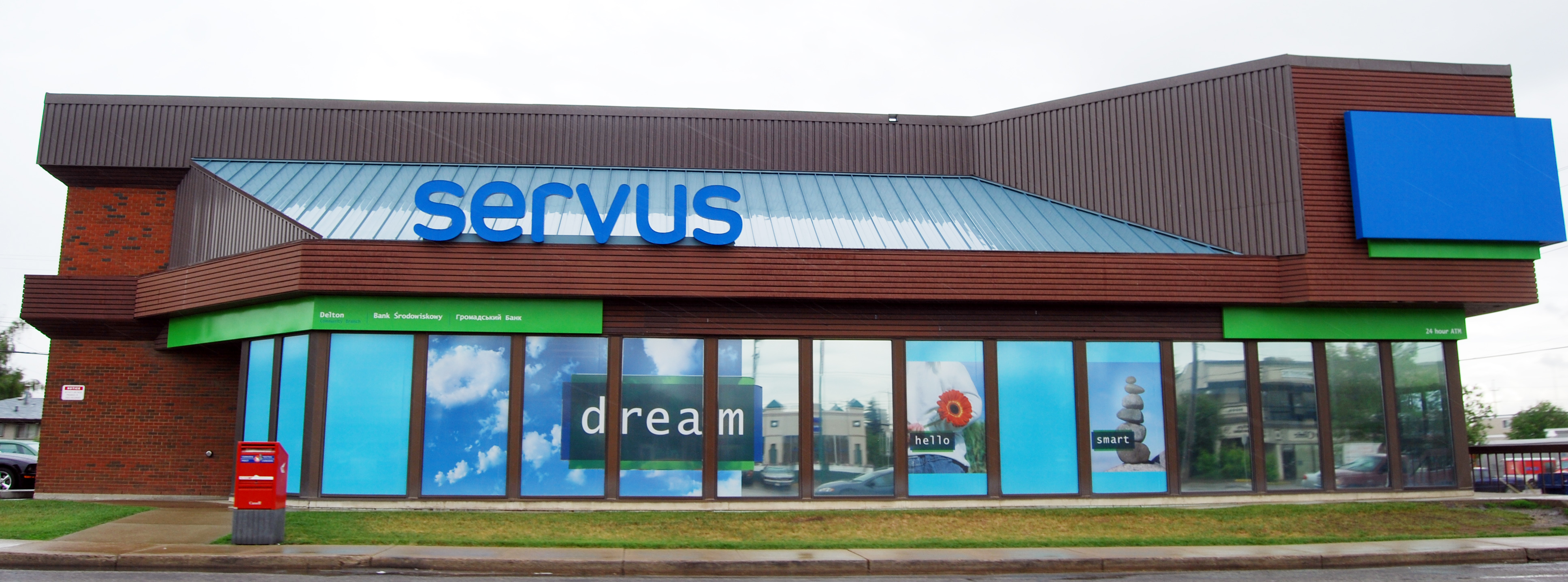 82St Edmonton, Alberta, Canada.